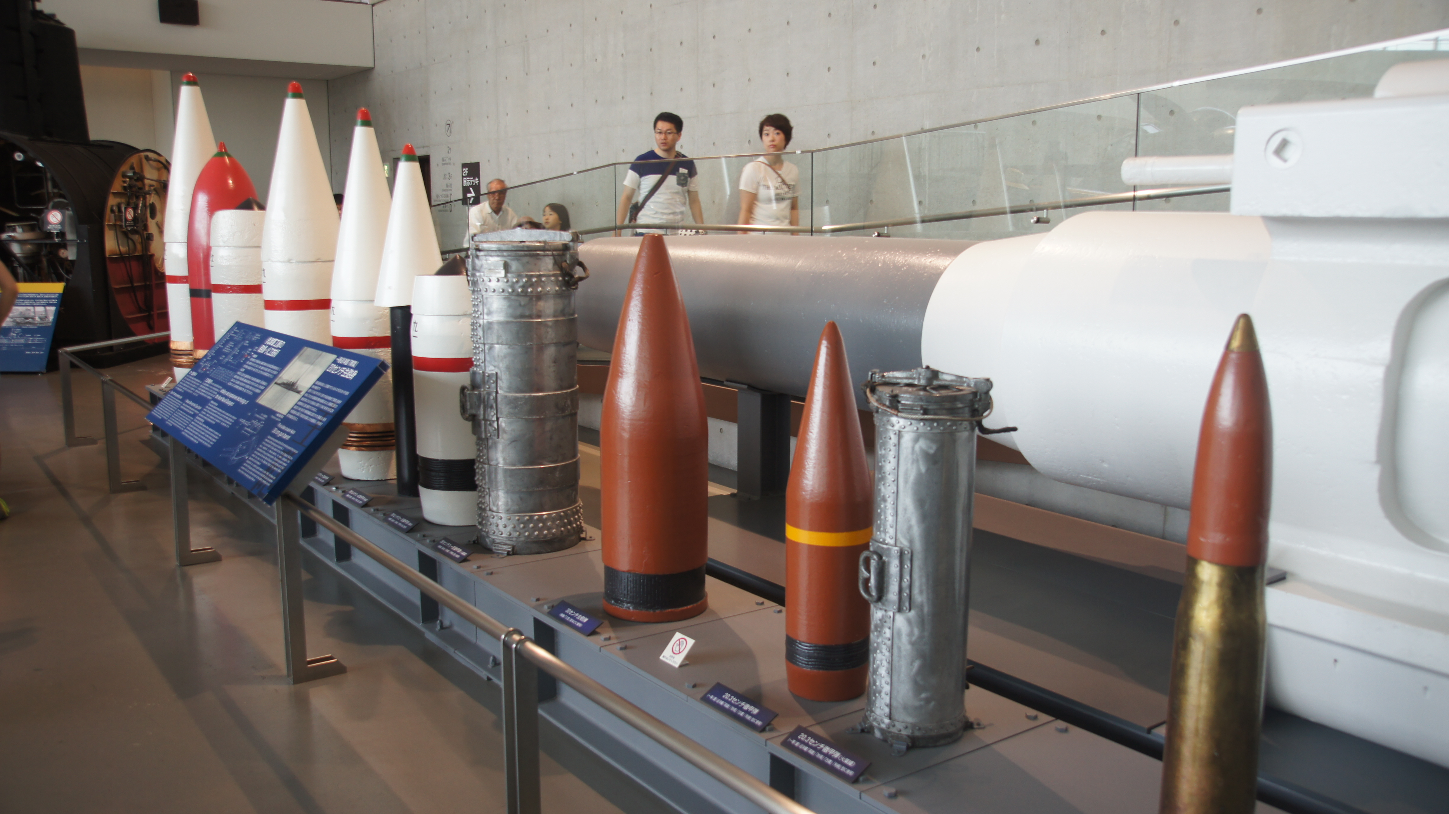 Ammunition for warships